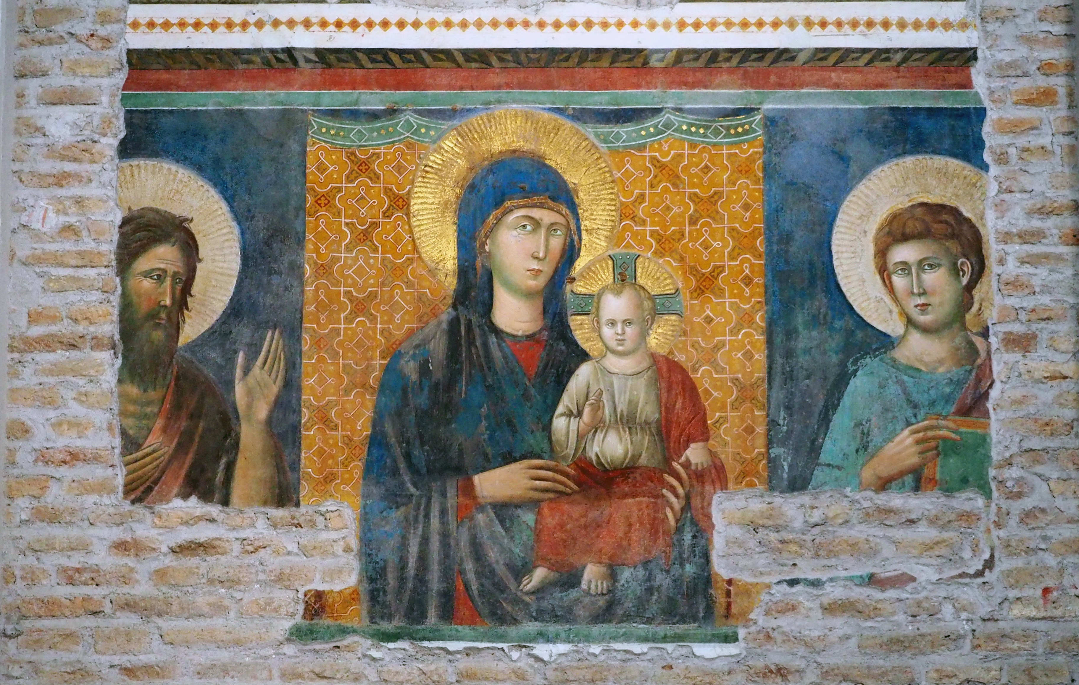 Santa Maria in Aracoeli (Rome); Cappella Pasquale Baylon; Fresco by Pietro Cavallini